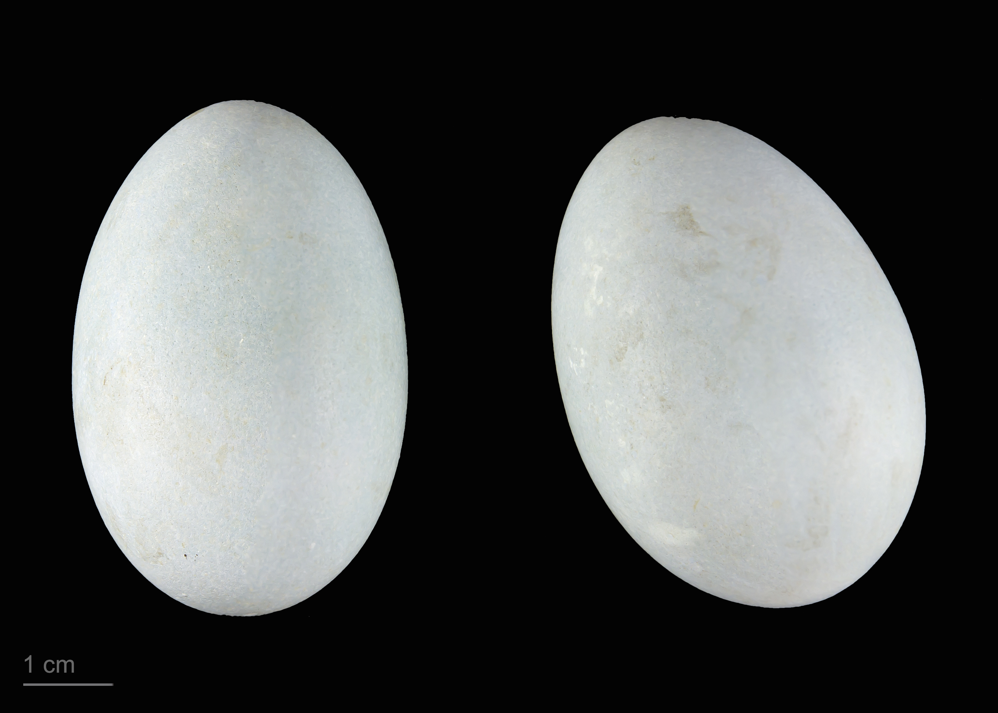 Eggs of glossy ibis Two specimens of the same spawn ; collection of Jacques Perrin de Brichambaut.